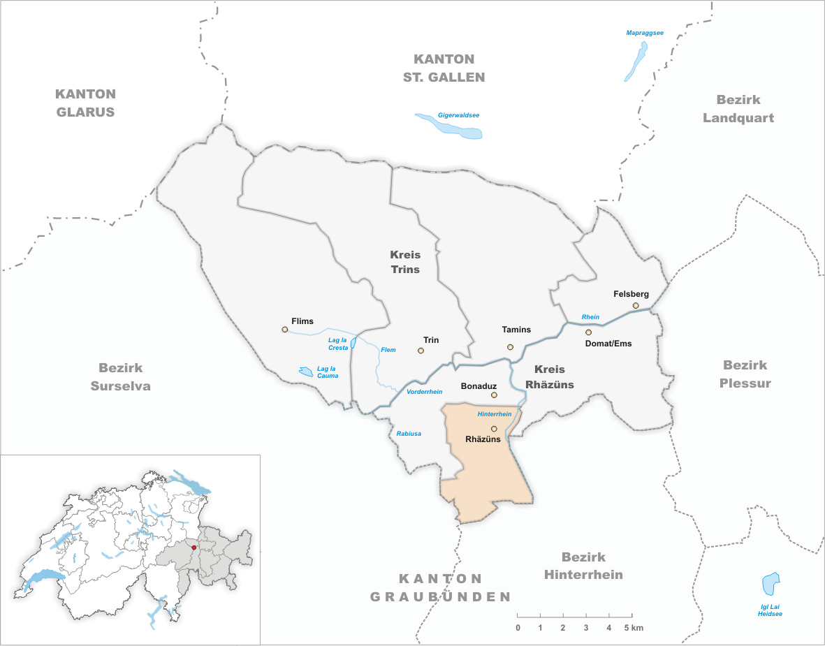 Municipality Rhäzüns